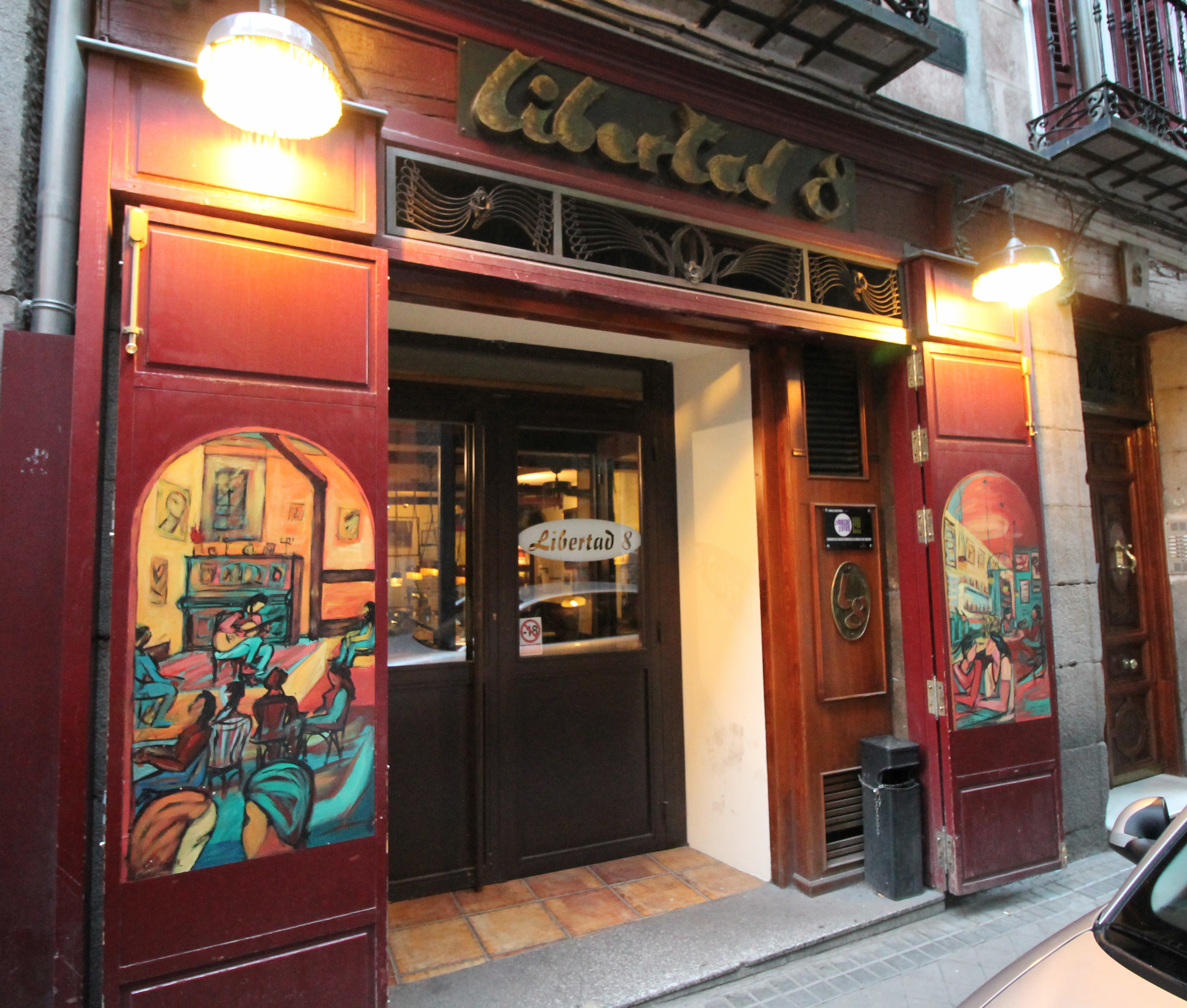 Façade of Libertad 8 café at 8 Calle de la Libertad (street) in Madrid (Spain).